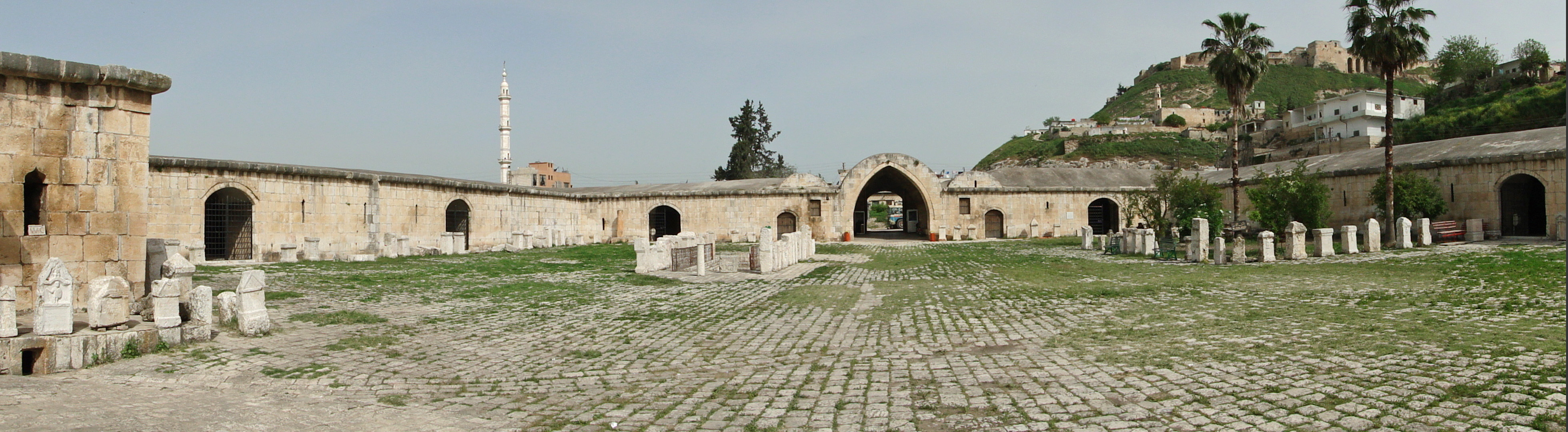 Ancient Ottoman caravanserai of Qalat el-Mudiq, Syria